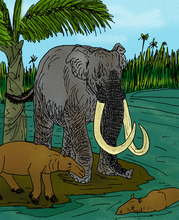 A bull African mammoth, Mammuthus africanavus comes down to the water's edge, and encounters a pair of anthracotheres of the genus merycopotamus during Pliocene Africa. (C) Stanton F. Fink